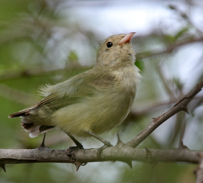 Pale-billed Flowerpecker Dicaeum erythrorhynchos in Hyderabad , India.